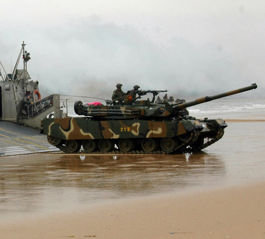 A Republic of Korea tank exits a Landing Craft Air Cushion (LCAC) in preparation in support of Foal Eagle 07. Foal Eagle is an annually scheduled exercise involving forces from the U.S. and the Republic of Korea (ROK).